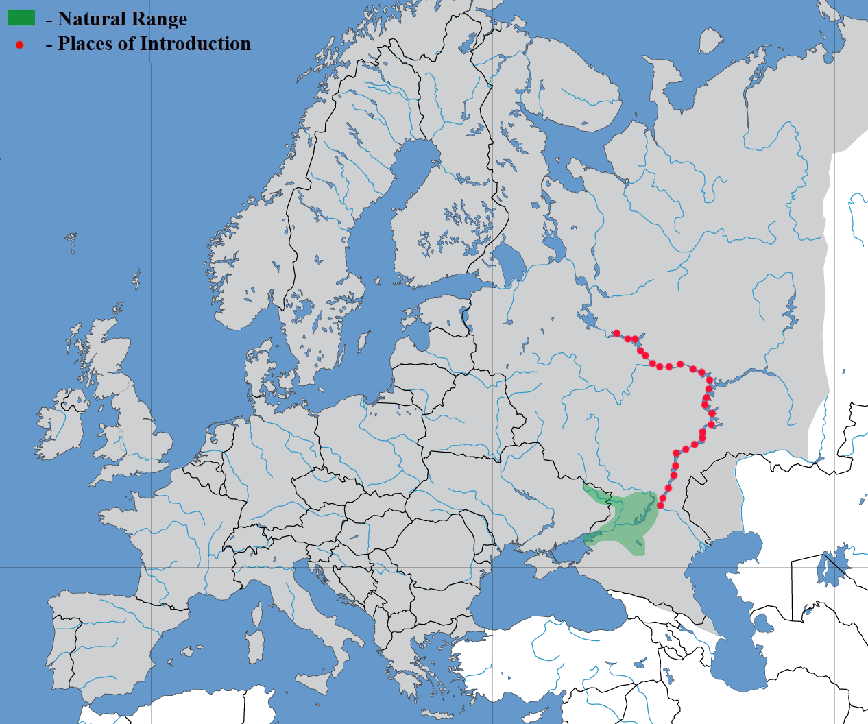 The range of the Don tadpole-goby (Benthophilus durelli)